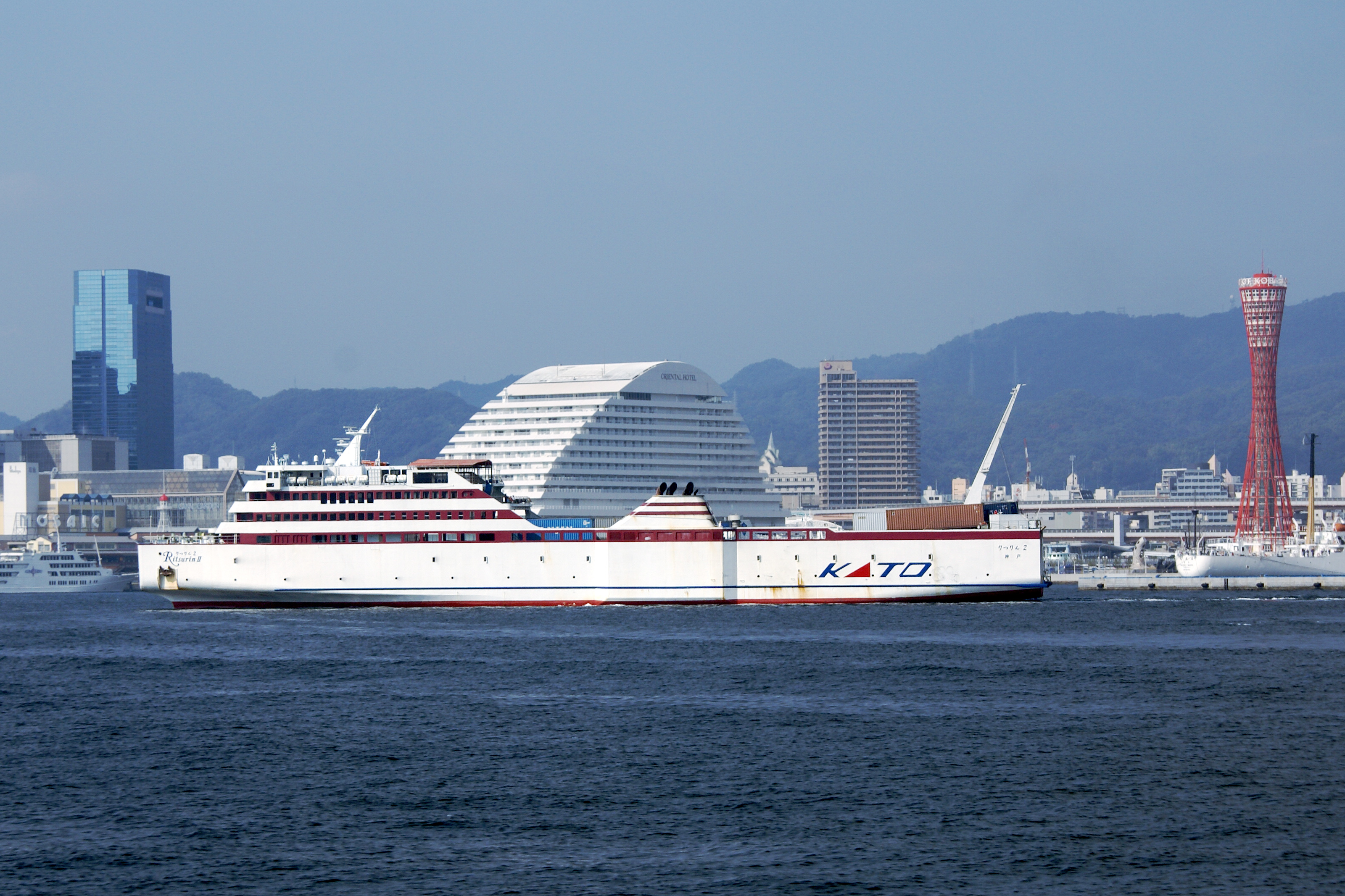 "Ritsurin2" at Shinko-tottei of the Kobe harbor in Kobe, Hyogo prefecture, Japan